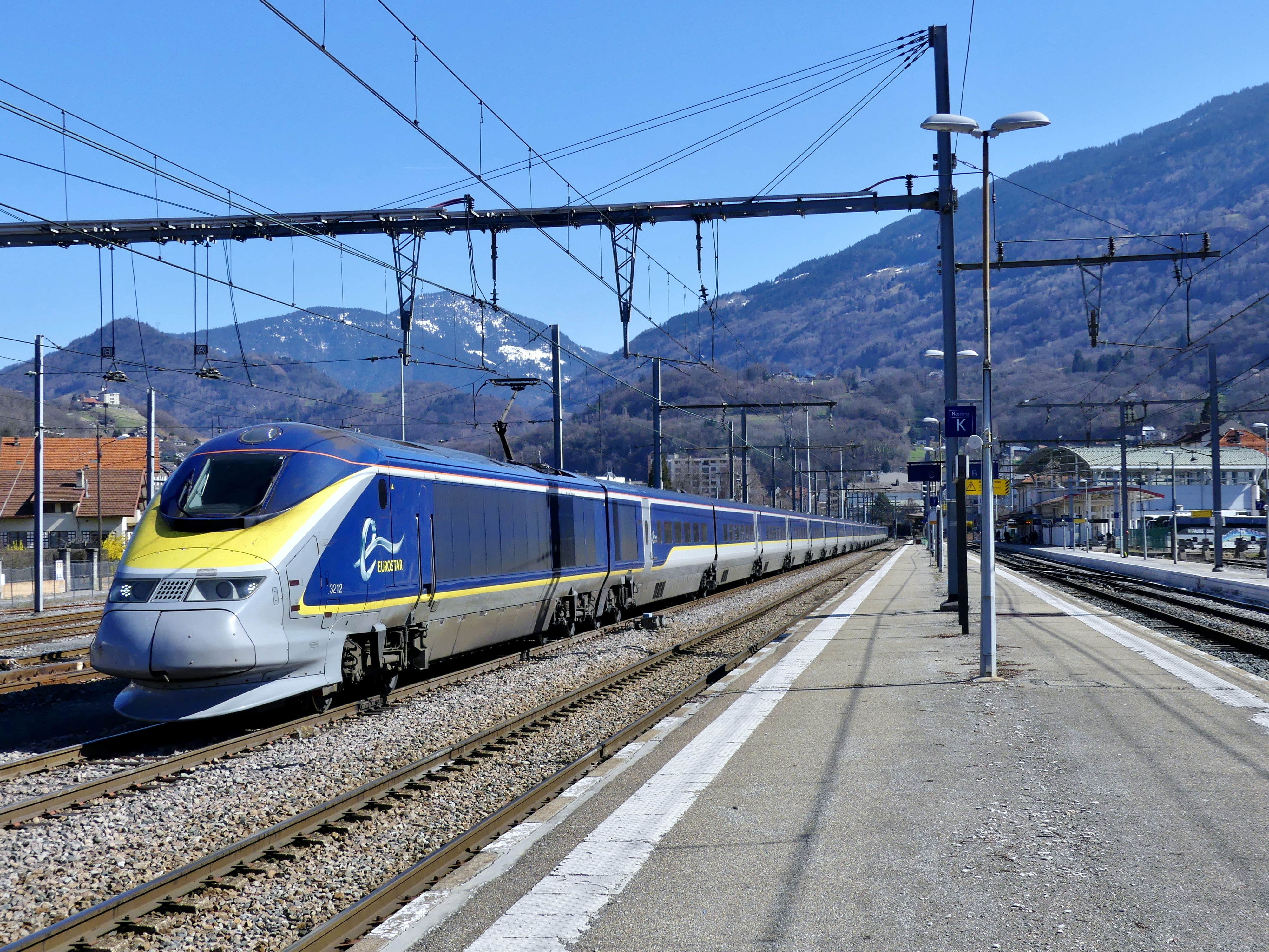 Sight of a Eurostar high speed train, on winter service n°9095 from Bourg-Saint-Maurice (in the French Alps) to London, stopped at Albertville in Savoie.